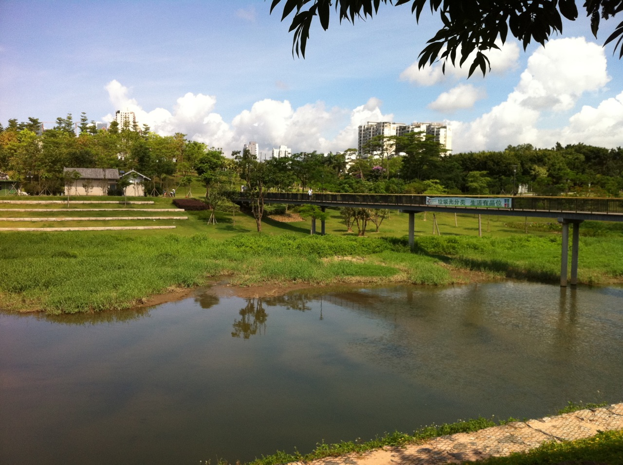 Bridge over Futian River in Area D, Shenzhen Central Park